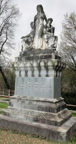 Image of Young Harris gravesite, taken for his biographical article